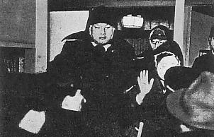 Jikoson Incident